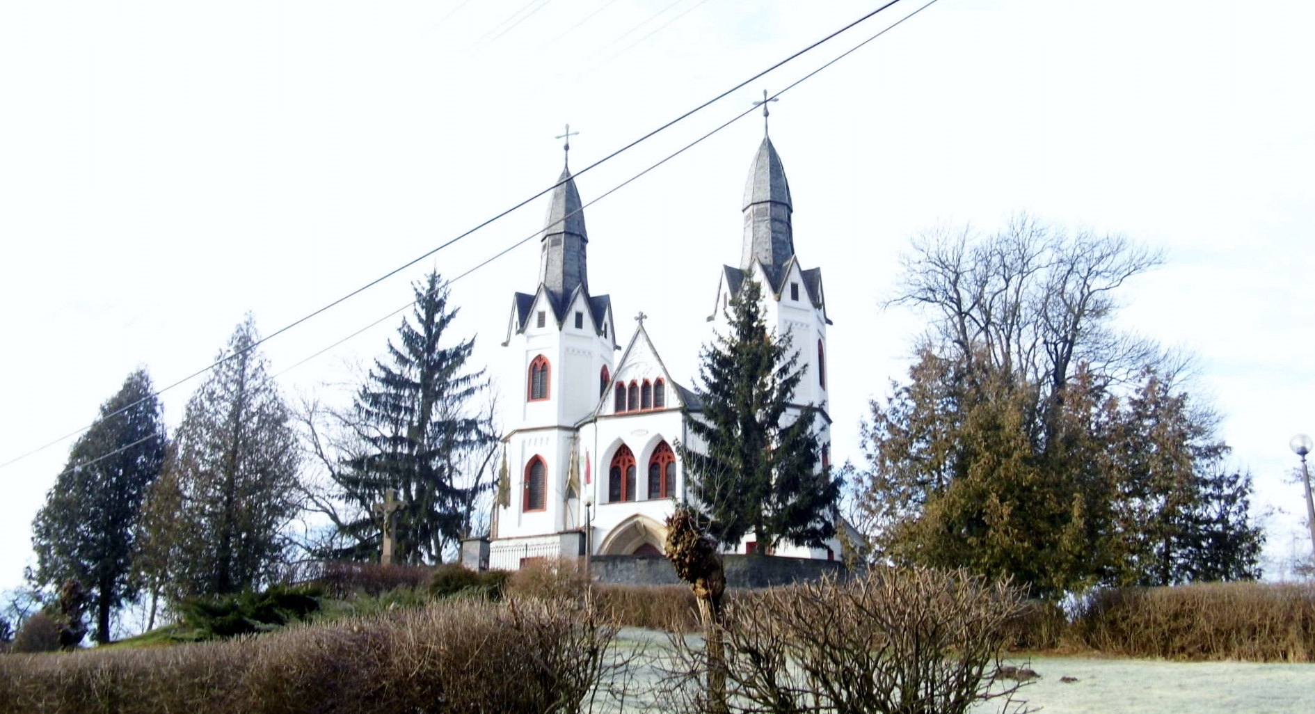 Saint Martin Church in Pétervására